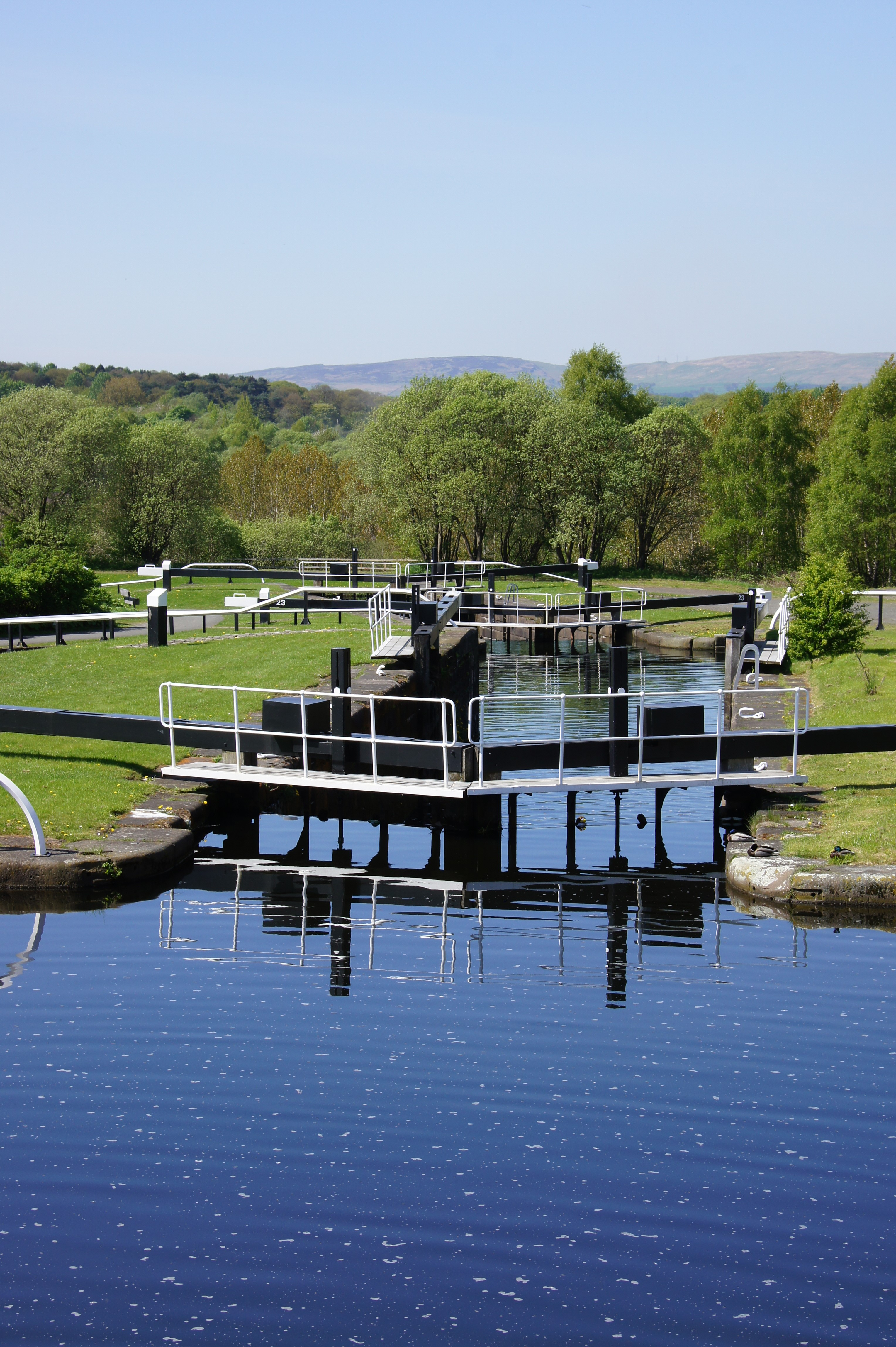 This file was uploaded as part of a GLAMWiki partnership with Maryhill Burgh Halls This tag does not indicate the copyright status of the attached work. A normal copyright tag is still required. See Commons:Licensing for more information. Maryhill Locks